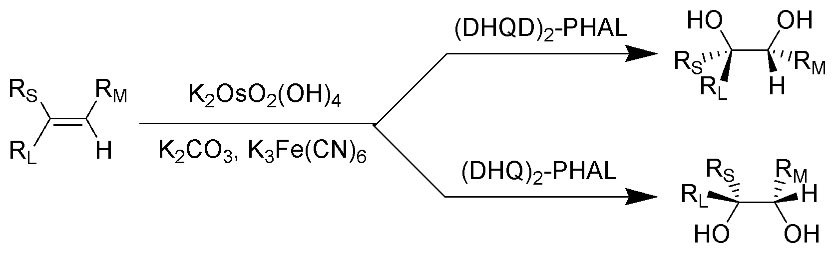 Description: Reaction scheme of the Sharpless dihydroxylation. Author, date of creation: selfmade by ~K, 20 August 2006. Source: - Copyright: Public domain. (PD) Comments: high-resolution b/w PNG; ChemDraw / The GIMP.